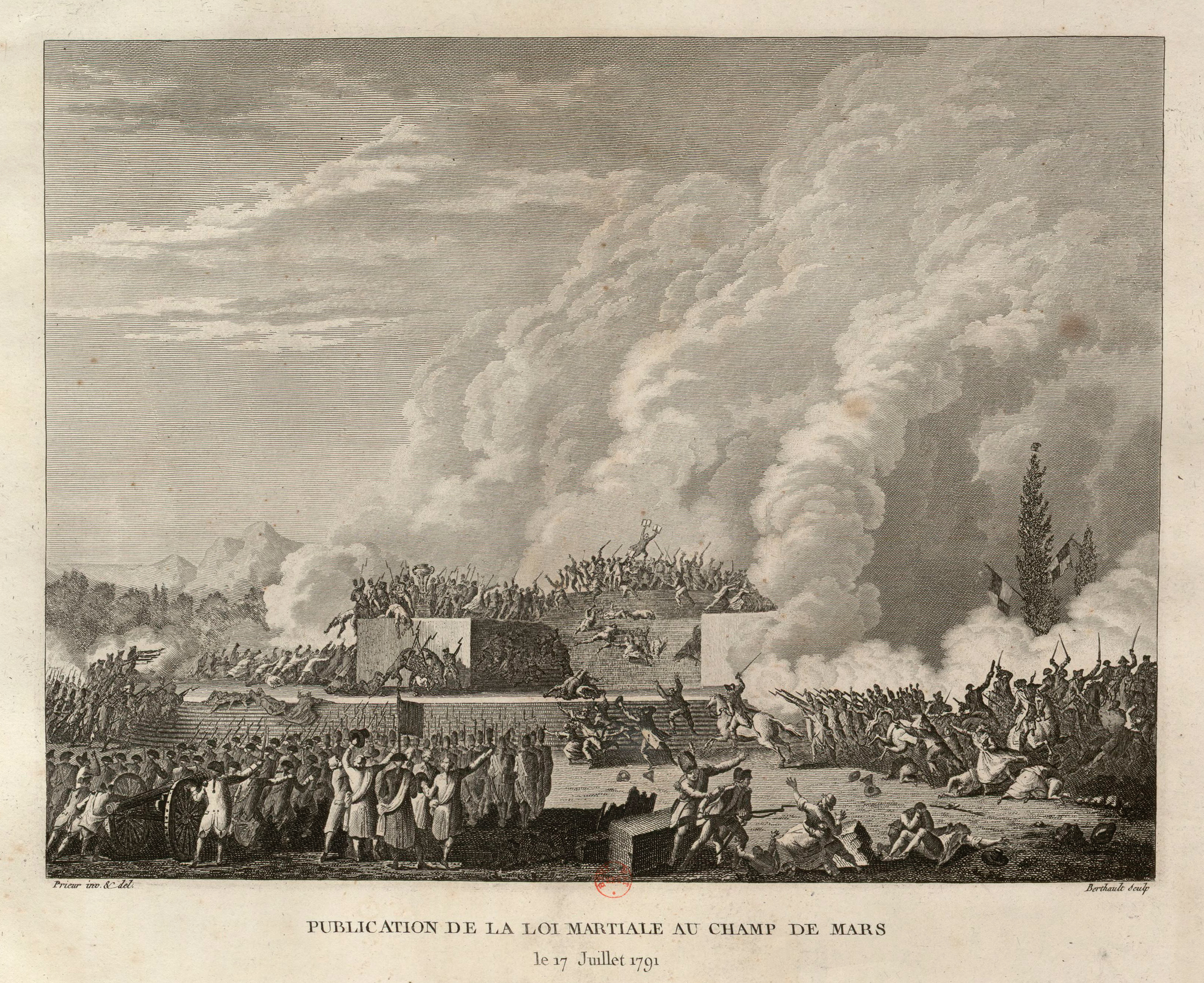 Publication de la loi martiale au Champ de Mars : le 17 juillet 1791 : [estampe] / Prieur inv. & del. ; Berthault sculp.